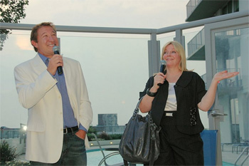 Steve McCoy and Vikki Locke at their welcome back party for B 98.5 FM